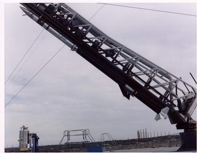 Black Brant VIII (Nike Black Brant) sounding rocket with XQC payload